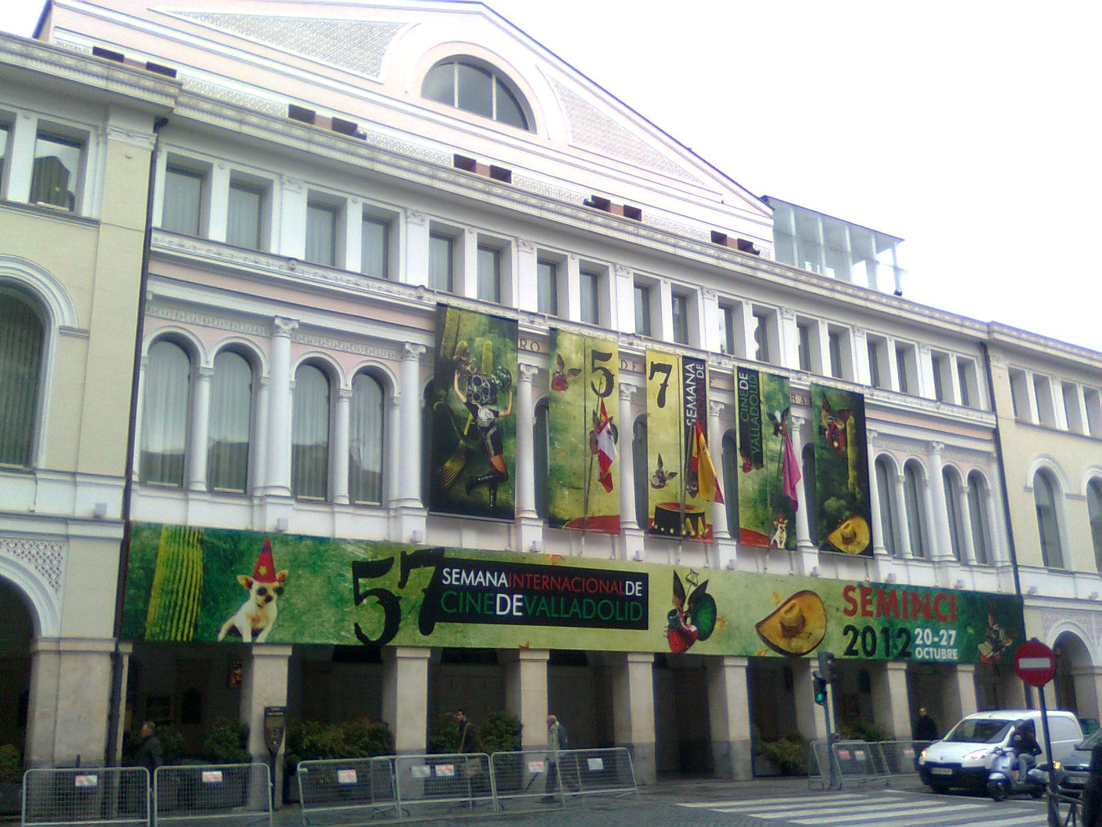 Outside of the Teatro Calderón in Valladolid (Spain) during the 57th Seminci (2012)